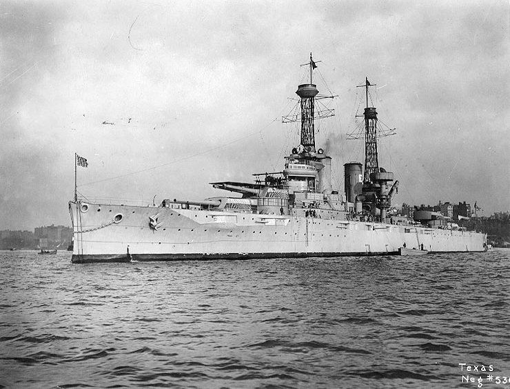 Battleship USS Texas (BB-35). Off New York City, circa 1919. U.S. Naval History and Heritage Command